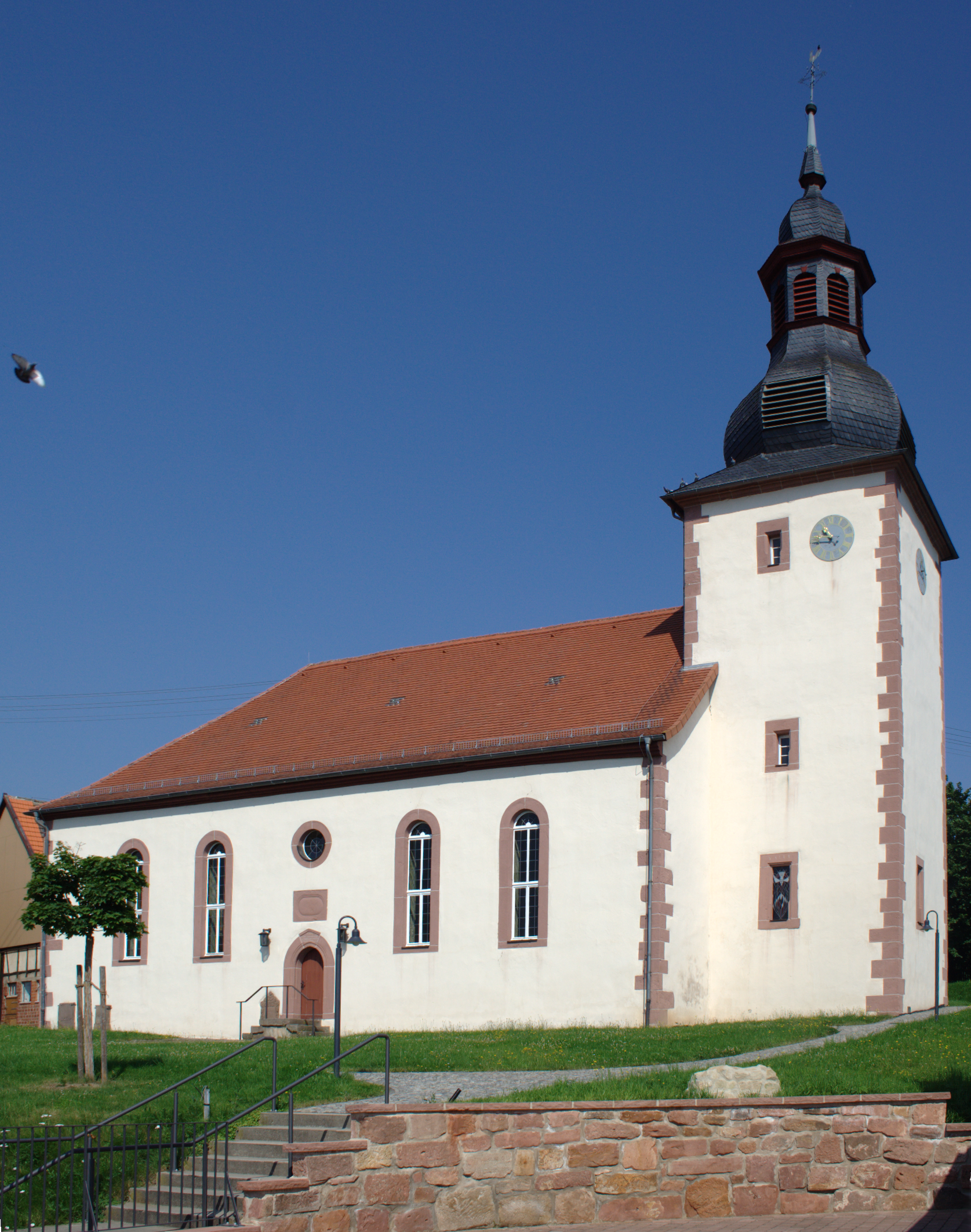 Church in Queck / Schlitz / Vogelsberg / Hesse / Germany